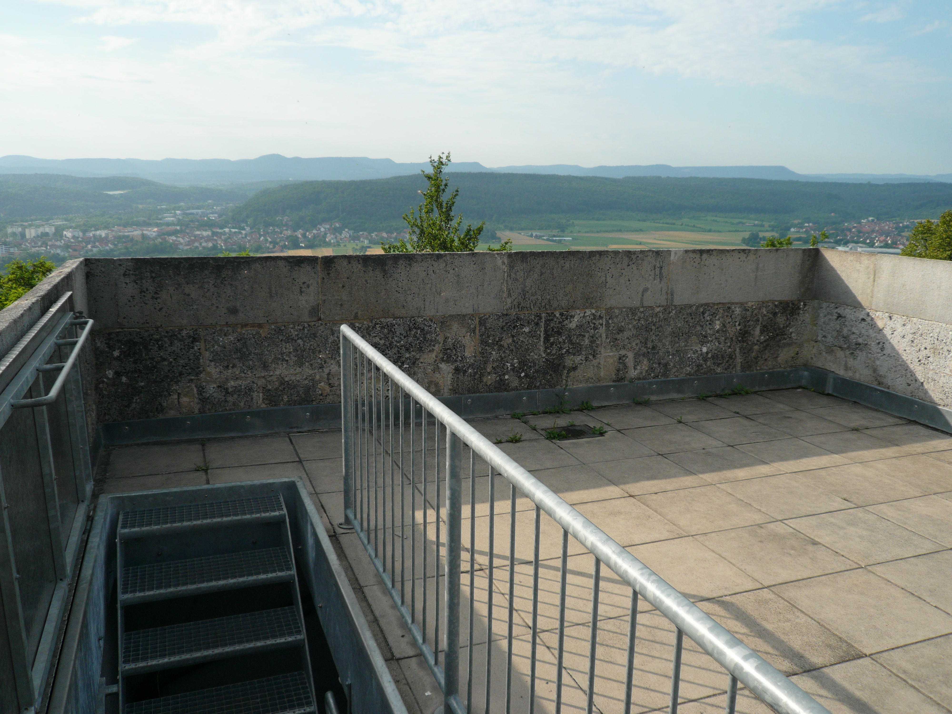 View from top of Bismarckturm, Tübingen